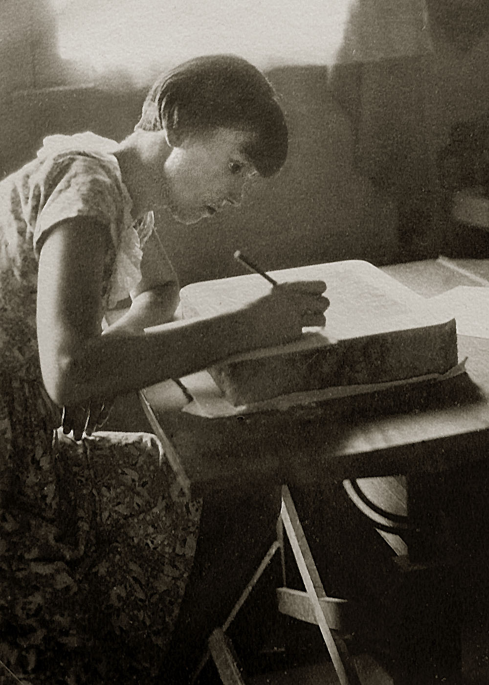 circa 1932